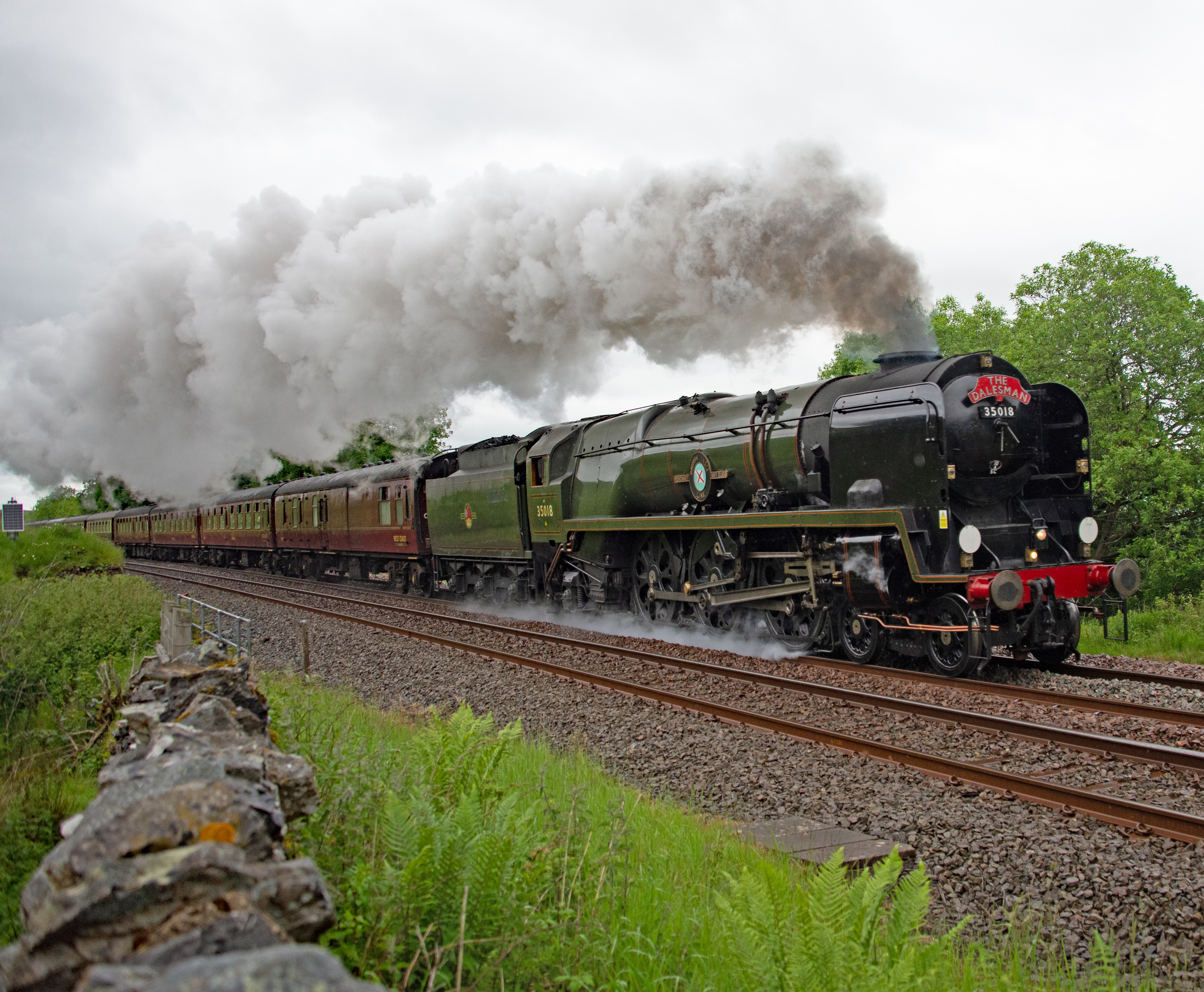 At A Push The Dalesman excursion heading back to York from Carlisle seen at Fothergill Sike by the northern portal of Birkett Tunnel as the rain finally arrived in south-east Cumbria. The slight rumble from the trailing Class 37 when it passed by at Blea Moor in the morning was now a distinct roar.